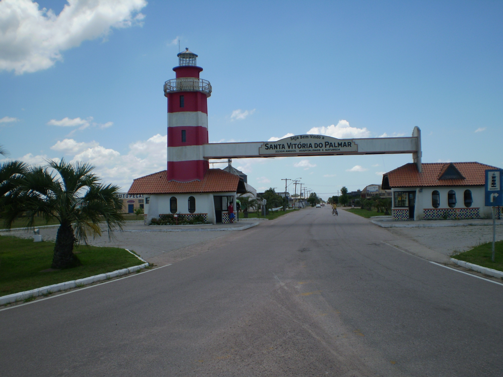 Faux lighthouse, replica of Chuí lighthouse. Main entrance of the town of Santa Vitória do Palmar, Rio Grande do Sul, Brazil.